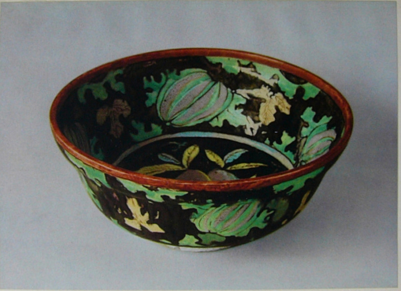 Enamelled ceramic bowl with Design of Mellons in Black Ground 24cm diameter, 10.8cm height , by MOKUBEI(ACE1767-1833), Kyoto, Japan